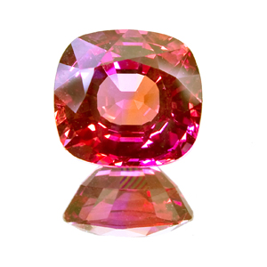 Padparaja sapphire, cushion, 2.28cts